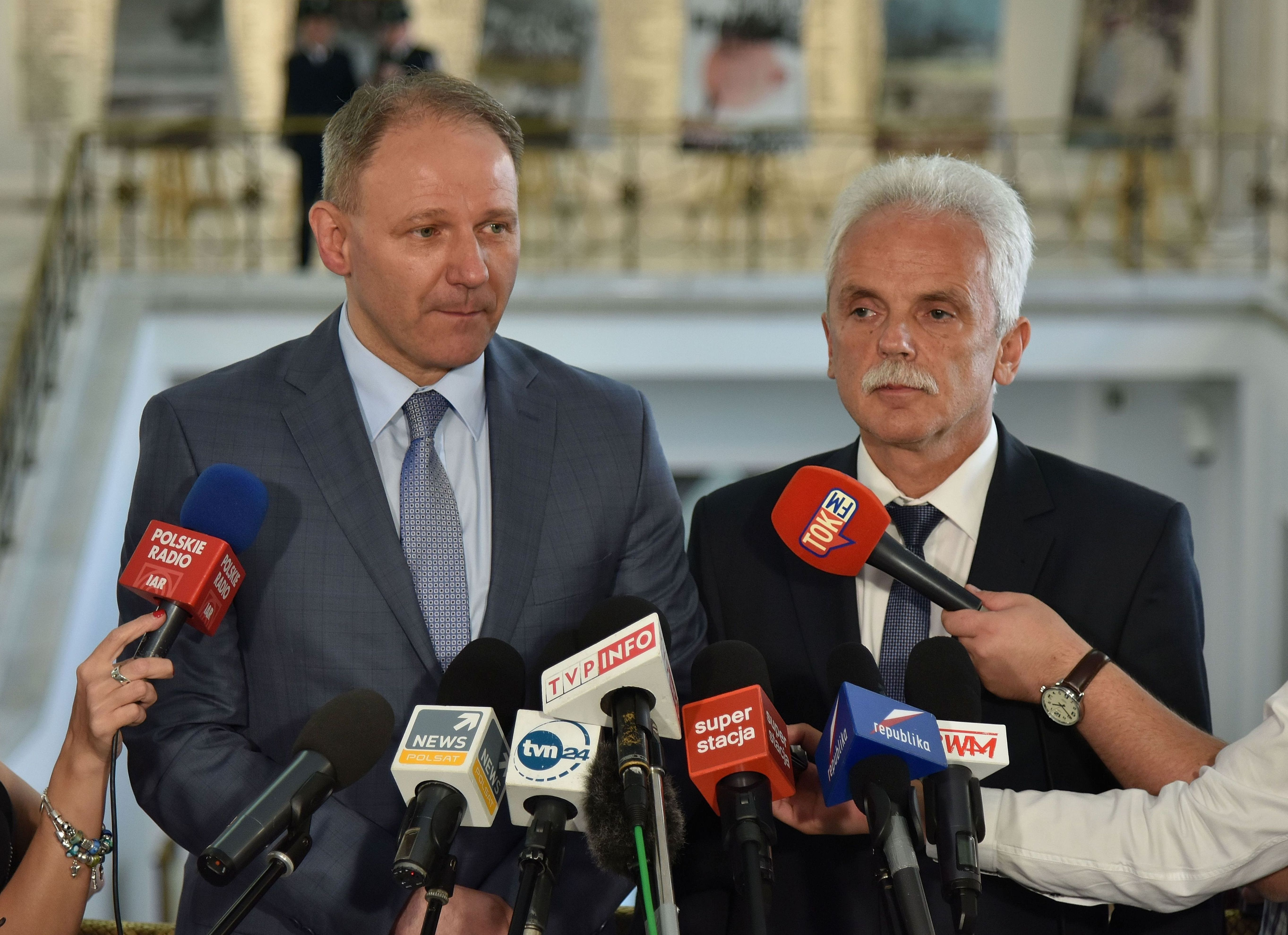 MPs Jacek Protasiewicz and Stanisław Huskowski in the Sejm